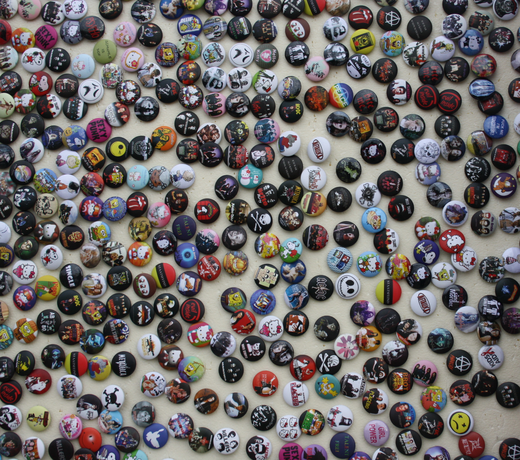 Pin buttons in a shop.